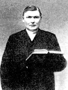 Christoph Kukat